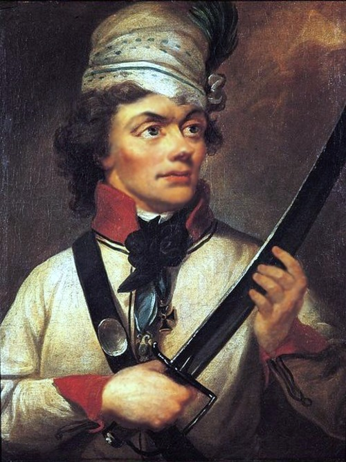 Portrait of Tadeusz Kościuszko, member of the Wasow Cadet Corps' first class and its most famous alumnus